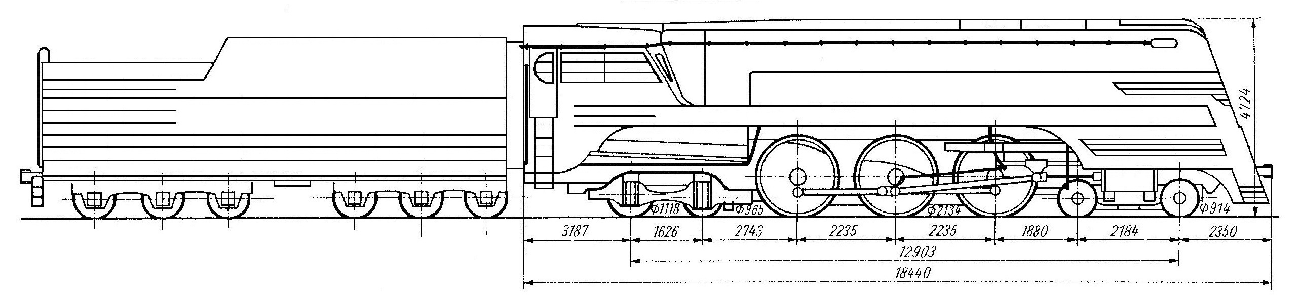 Line drawing (with metric diminsions) of Milwaukee Road class F7 4-6-4 ‘Baltic’ or ‘Hudson’ for the Hiawatha service (ALCO 1937-1938) speedlined by Otto Kuhler